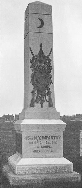 45th N. Y. Volunteer Infantry Regiment monument at Gettysburg, published in Final Report on the Battlefield of Gettysburg (New York at Gettysburg) by the New York Monuments Commission for the Battlefields of Gettysburg and Chattanooga. Albany, NY: J. B. Lyon Company, 1902.